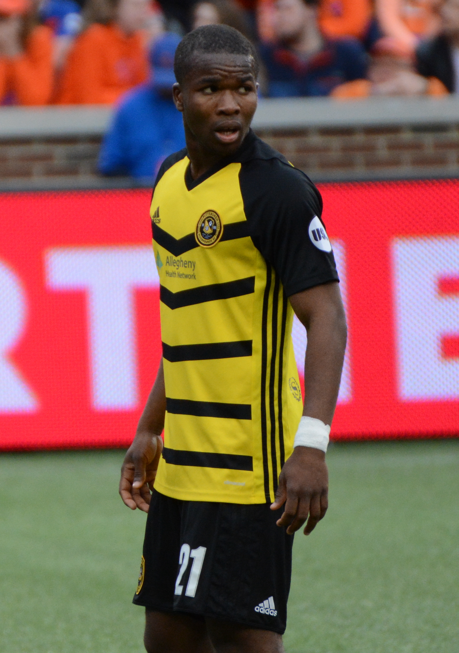 Senegalese footballer Mouhamed Dabo, a midfielder for Pittsburgh Riverhounds SC, looking over his shoulder during a USL regular season match between FC Cincinnati and Pittsburgh Riverhounds at Nippert Stadium in Cincinnati, USA on April 21, 2018.